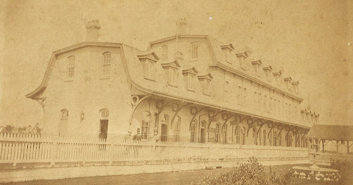 Photograph of historical Grand Trunk Railway station at Point Edward, Ontario. The station has been built in 18559 and burnt down in a fire in 1877